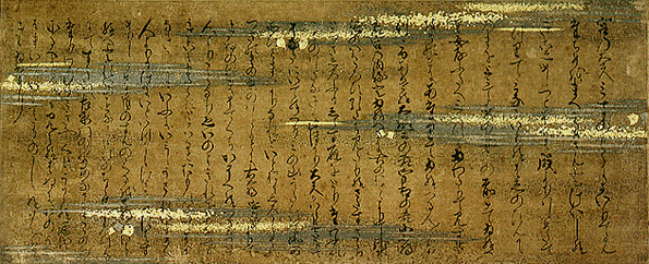 The Murasaki Shikibu Diary Emaki (紙本著色紫式部日記絵巻, shihonchoshoku Murasaki Shikibu nikki emaki). This is part of the handscroll located at the Gotoh Museum in Tokyo which consists of three illustrations and three pages of text. Color on paper. The scroll has been designated as National Treasure of Japan in the category paintings. 21.0cm x 51.4cm.